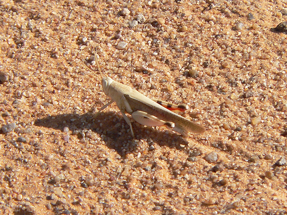 Female Diabolocatantops axillaris near Benichab, Mauritania.